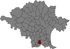 Location of Sant Mori in Alt Empordà